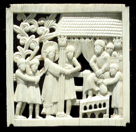 Christ before Pilate (Trial of Jesus) and Flagellation of Christ, Milan 962–973, ivory; one of the reliefs donated to the Magdeburg Cathedral by Otto I Bayerisches Nationalmuseum München, Inv. Nr. 17/418–420 (drei Reliefs)